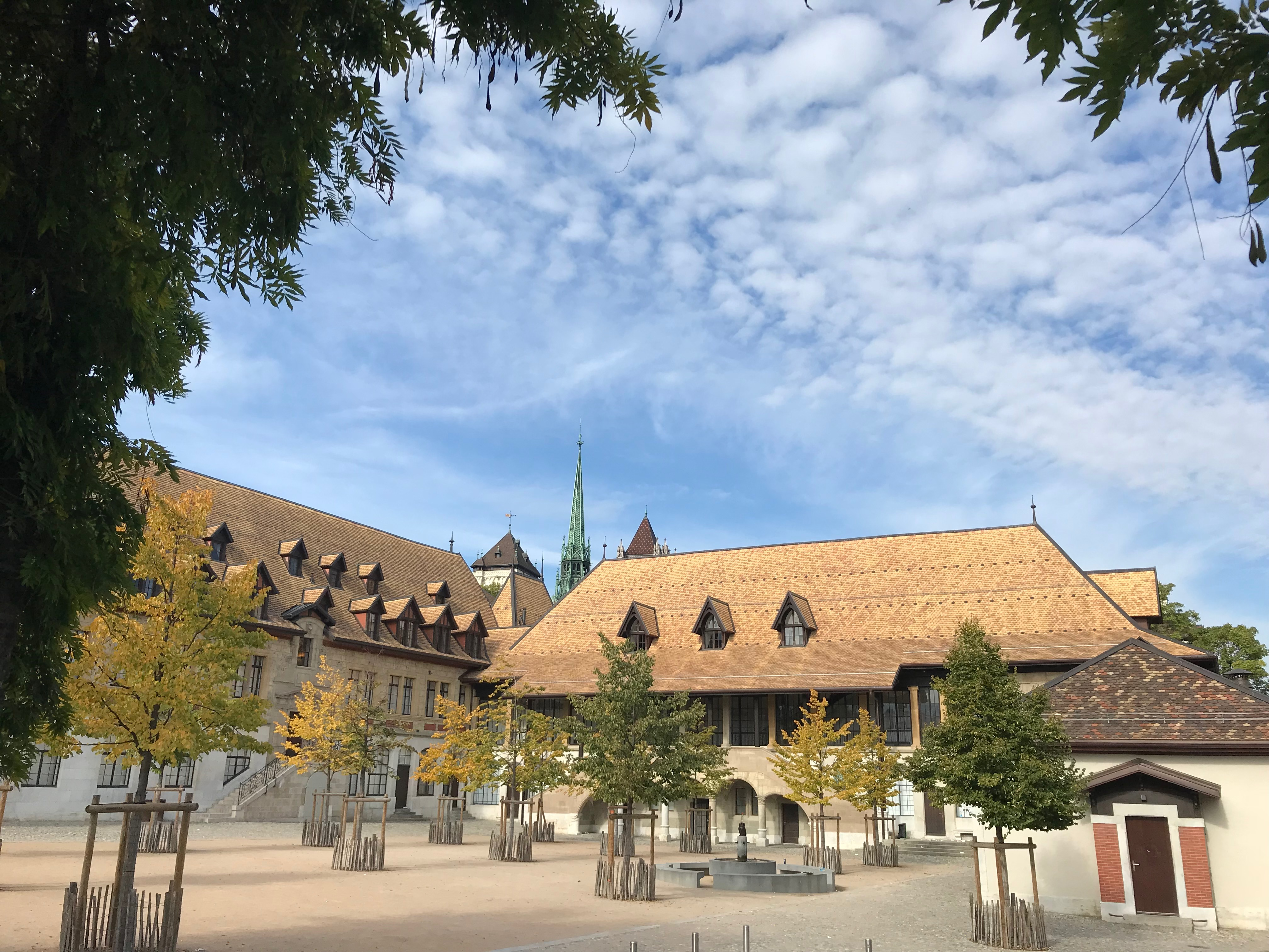 View of the College Calvin after an extensive renovation work